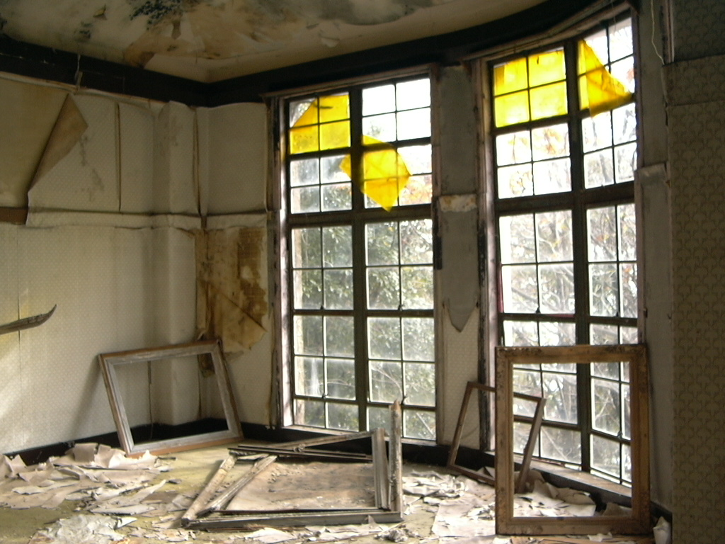 my own work. A shot of one room at one apparently abandoned hotel in Japan.